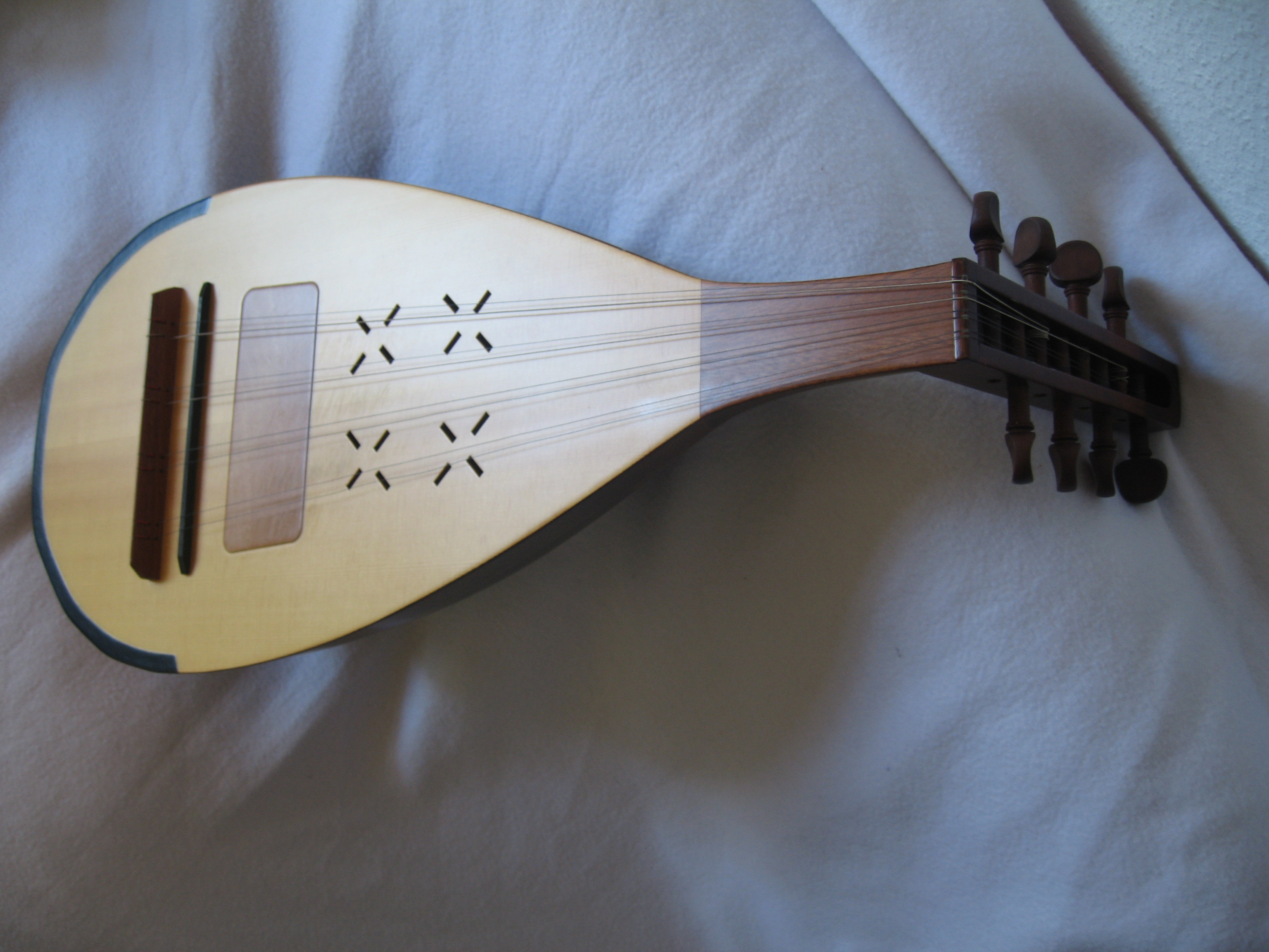 Cobza